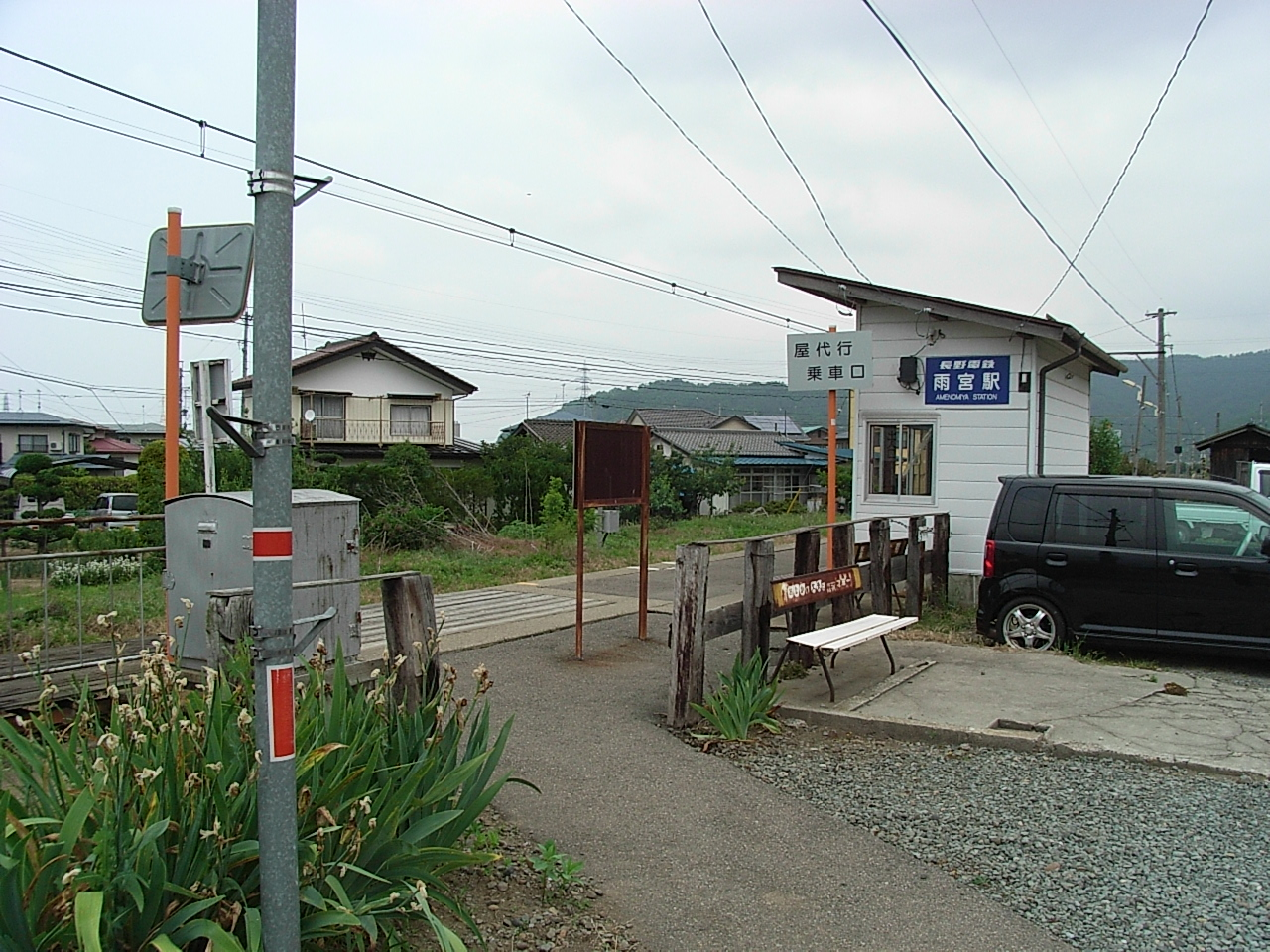 Amenomiya Station on Nagano Electric Railway Yashiro Line. (763-2,Amenomiya,Chikuma-shi,Nagano-ken,JAPAN)